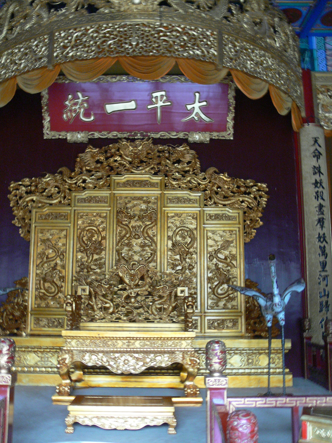 Heavely king Hong Xiuquan's throne at Hong Xiuquan memorial hall in Nanjing.